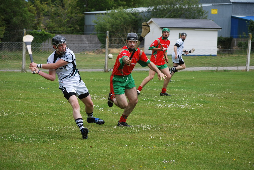 Killyon vrs Longwood - Meath Senior Hurling Championship 2011 - played at Boardsmill Hurling Club - Sunday 19th June 2011